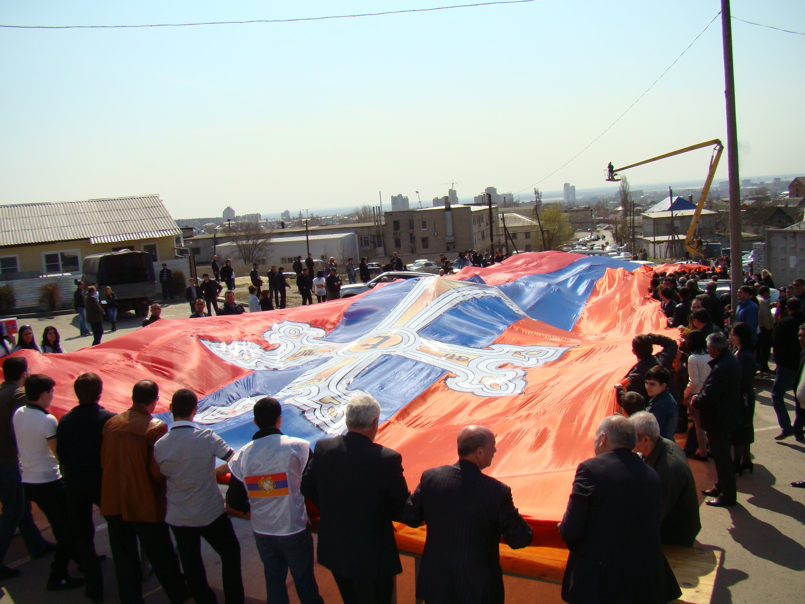 Armenian Genocide Day in Sourb Gevorg armenian Church